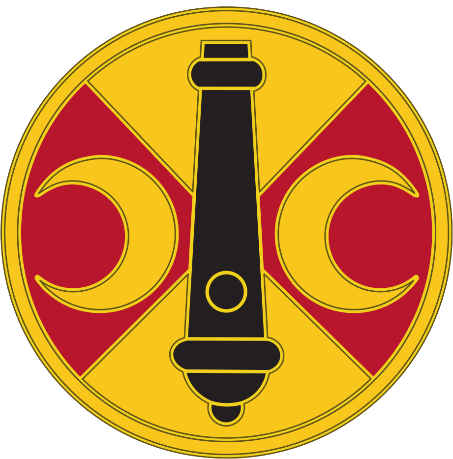 210th FAB Logo